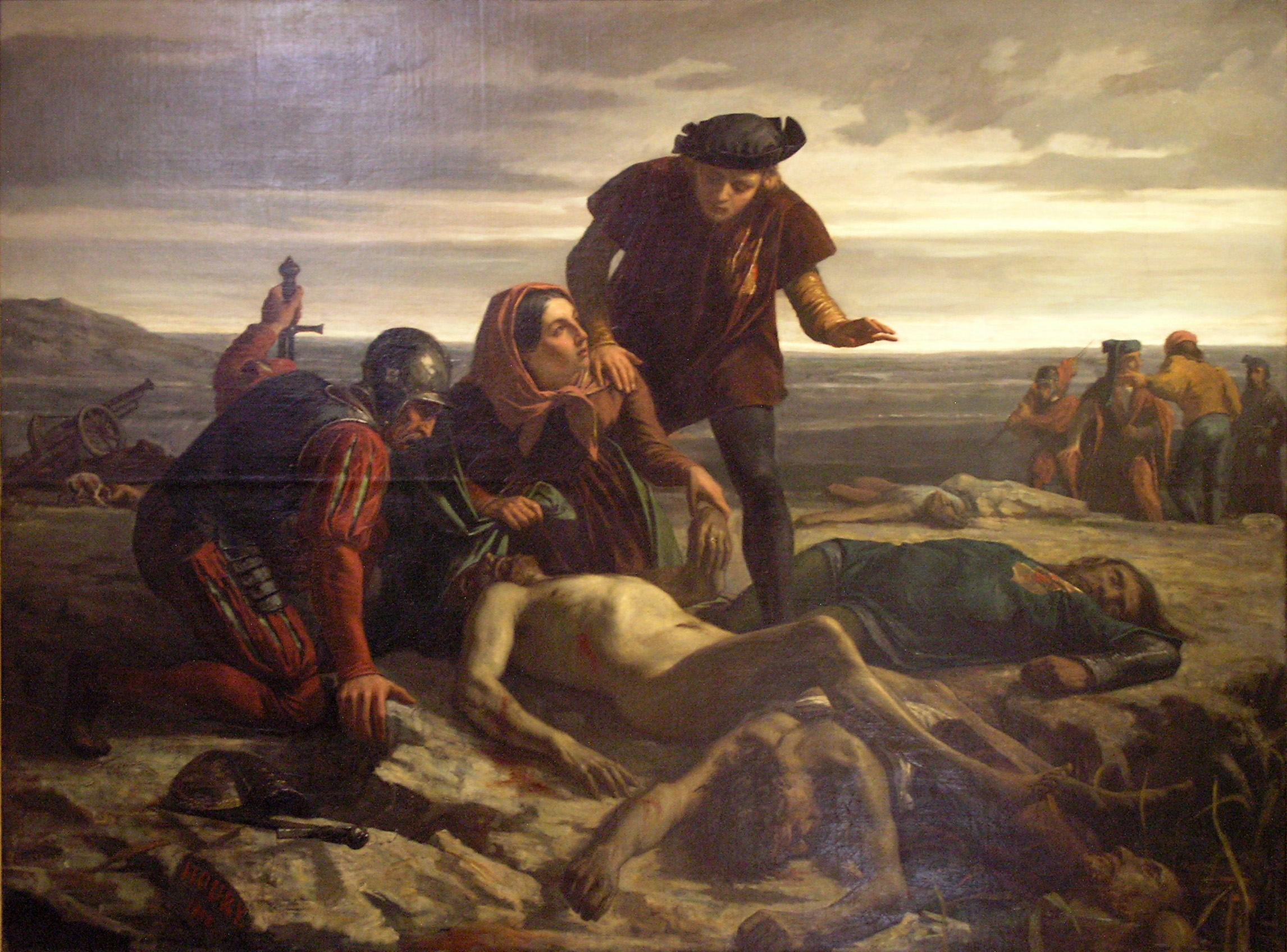 The corpse of Charles the Bold, duke of Burgundy, discovered after the Battle of Nancy, 1477.